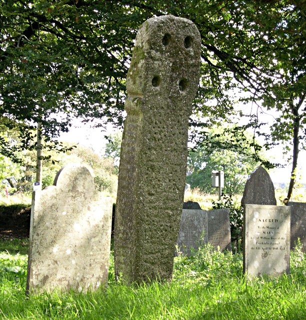 Ancient churchyard cross This large and very old celtic cross is to be found in Roche Churchyard.